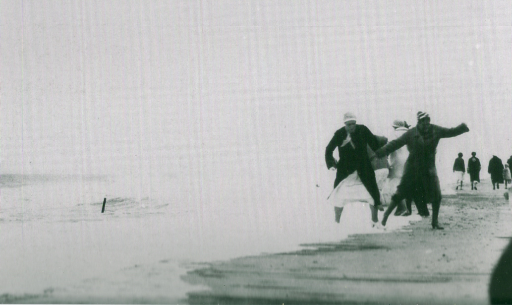 A wave breaks across the original, surface-level boardwalk in Bethany Beach sometime between the boardwalk's completion in 1903 and its destruction by a storm in 1920.